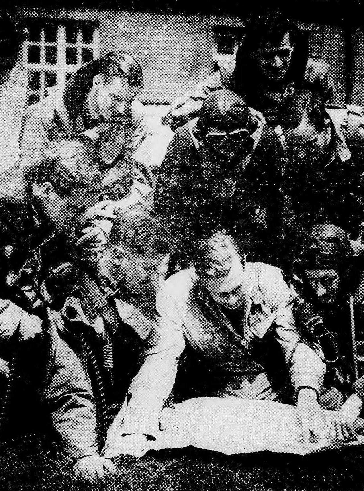 Bermudian fighter pilot 33307 Flying Officer Herman Francis Grant Ede, DFC, of 263 Squadron, Royal Air Force (seated at left), studies a map with other pilots. Ede was among those killed on the 8 June, 1940, when the Royal Navy aircraft carrier HMS Glorious was sunk while evacuating 263 Squadron and 46 Squadron from the Battle of Norway.